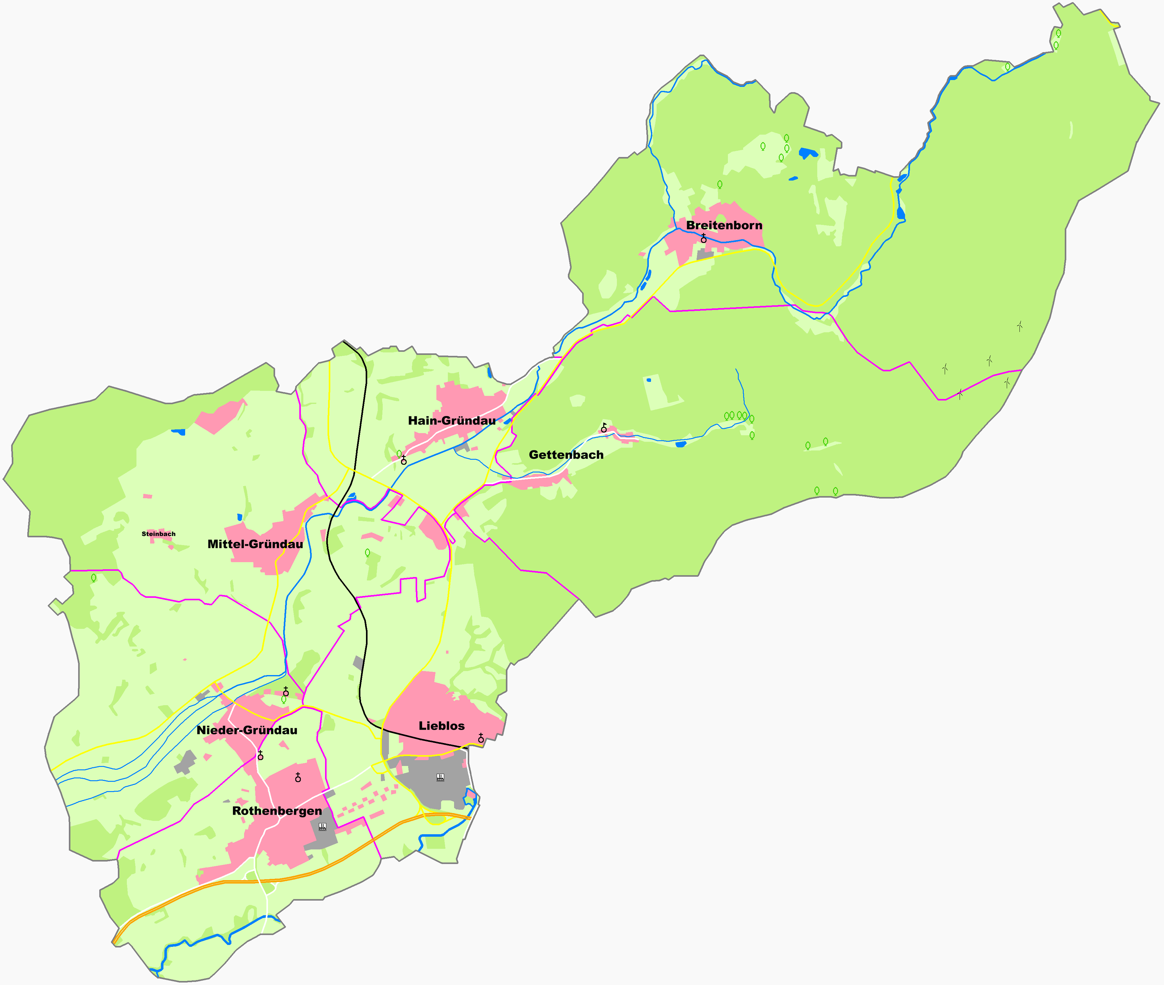 Municipal area and districts of Gründau Grassland, Meadow Settlement area Industrial area Forest Body of water Municipal border District border Freeway Main street Side street Railway Industrial park Church Château Wind turbine Natural monument